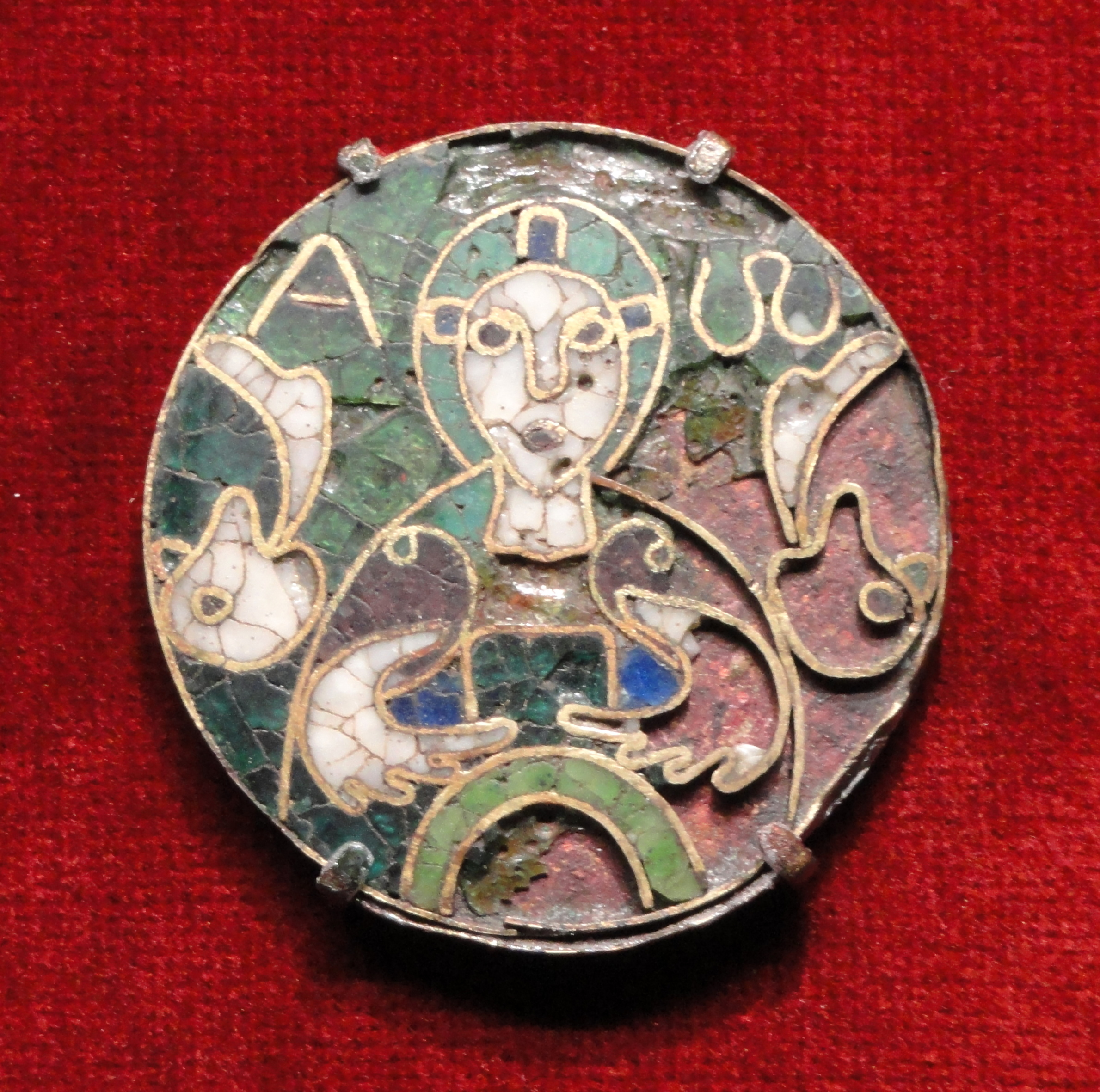 Exhibit in the Cleveland Museum of Art, Cleveland, Ohio, USA. This artwork is old enough so that it is in the public domain.